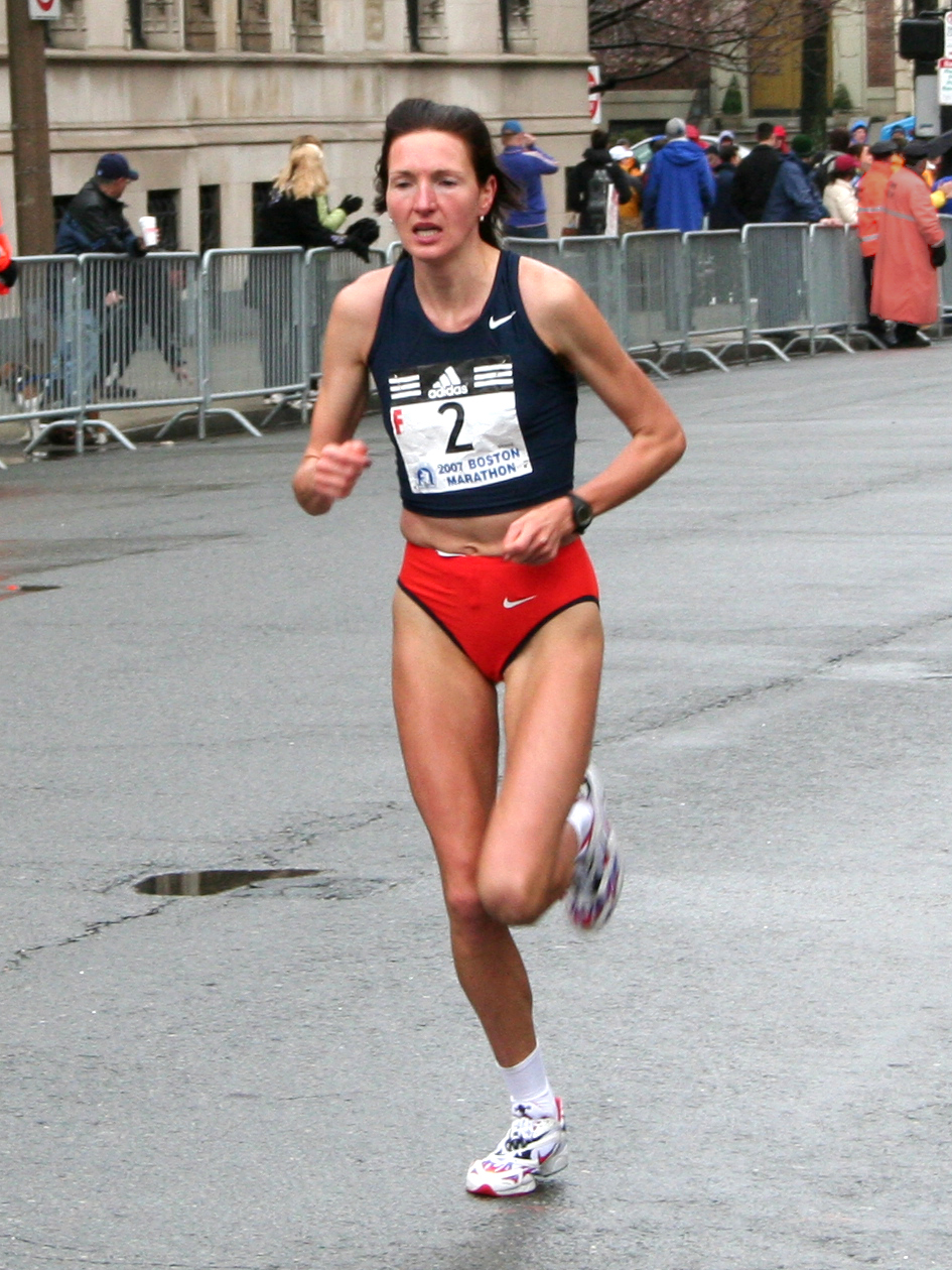 Jeļena Prokopčuka at the 2007 Boston Marathon